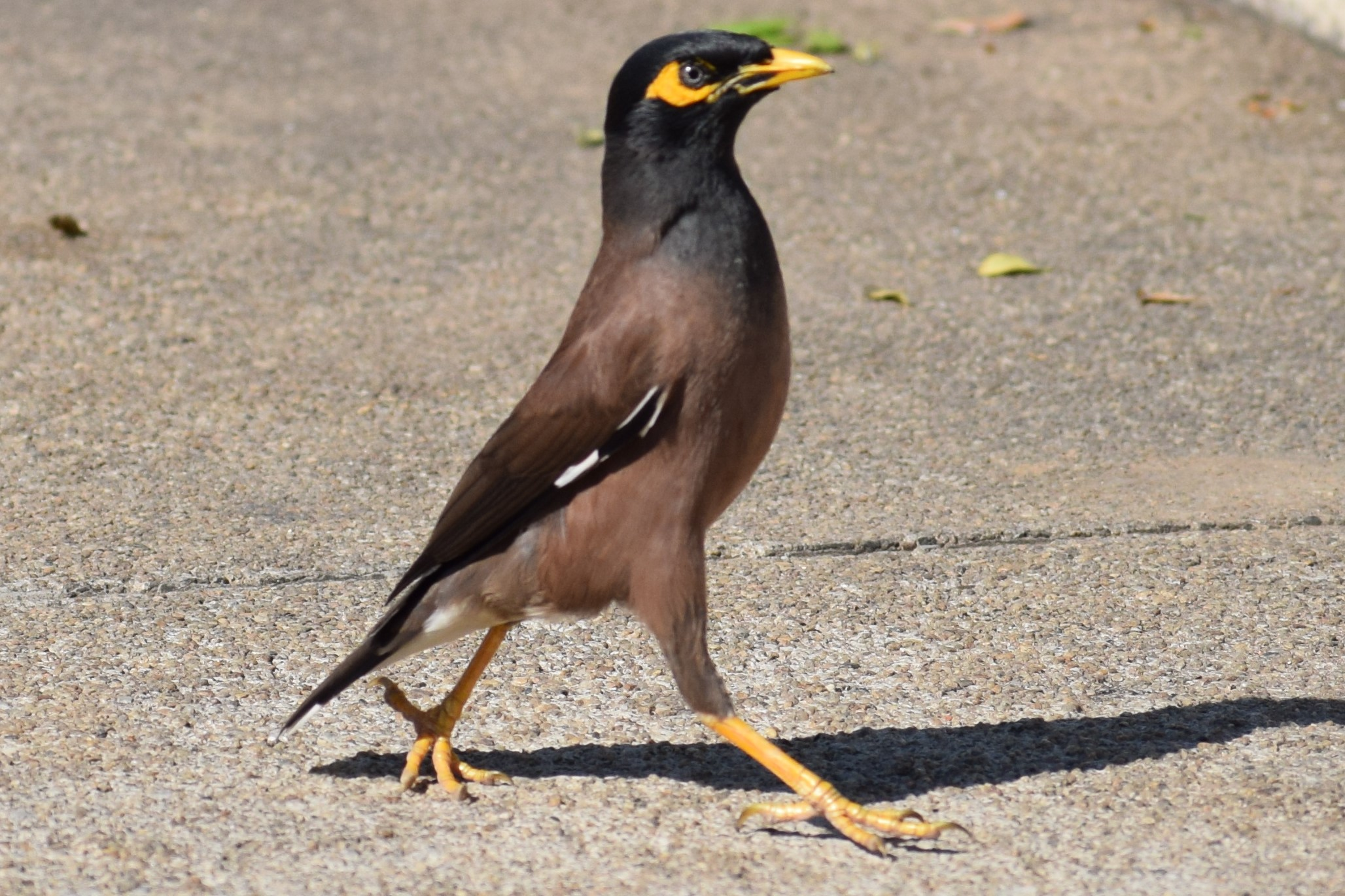 Acridotheres tristis, a common myna bird, on the tourist plaza at the River Kwai bridge in Kanchanburi, Thailand.